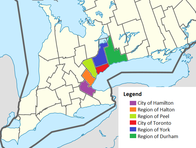 Modified from File:Canada Ontario location map.svg, and highlighted with MS Paint to show the Greater Toronto and Hamilton Area, as defined in The Big Move [1]